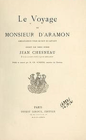 Jean_Chesneau_19th_century_edition